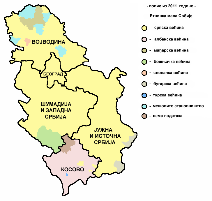 Ethnic map of Serbia (including Kosovo) according to 2011 censuses in Serbia and Kosovo.